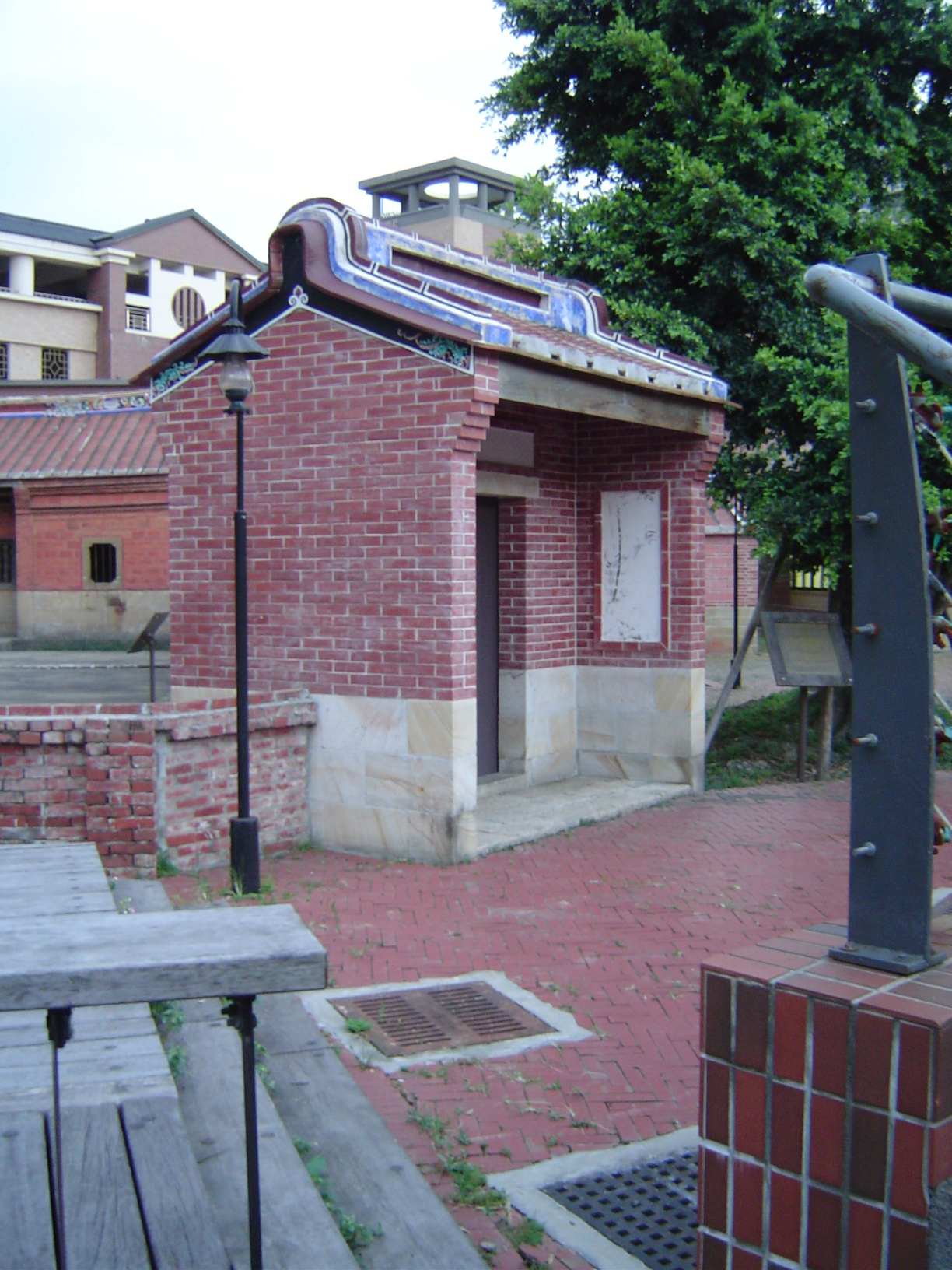 An arch over a gateway fo the heritage, Huang Family Qianrang Estate, in Daan District, Taipei, Taiwan.